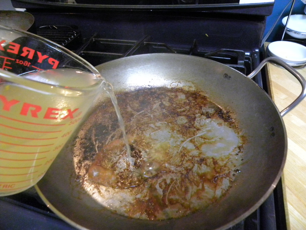 Deglazing (cooking)